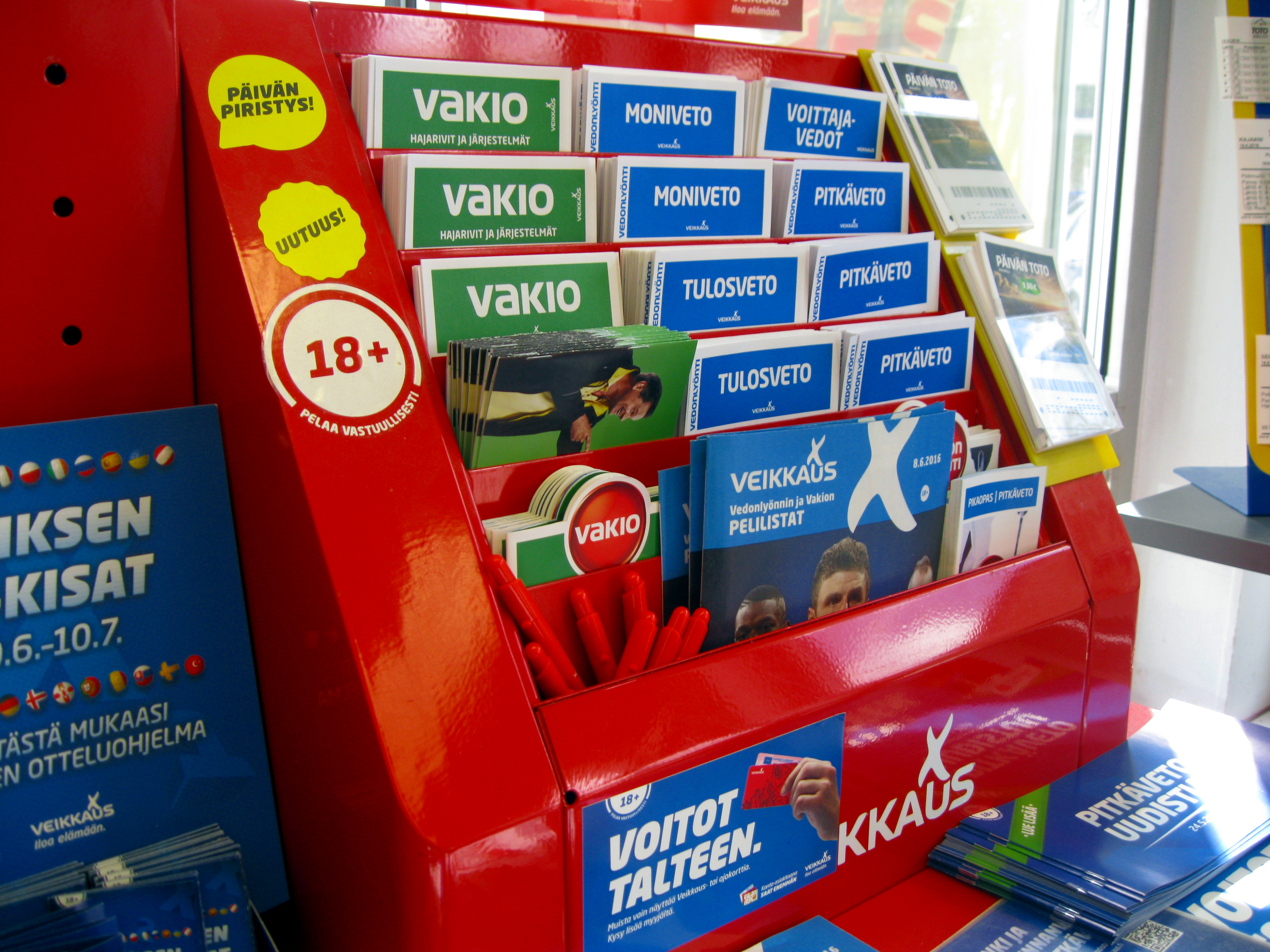 Finnish sports betting tickets.